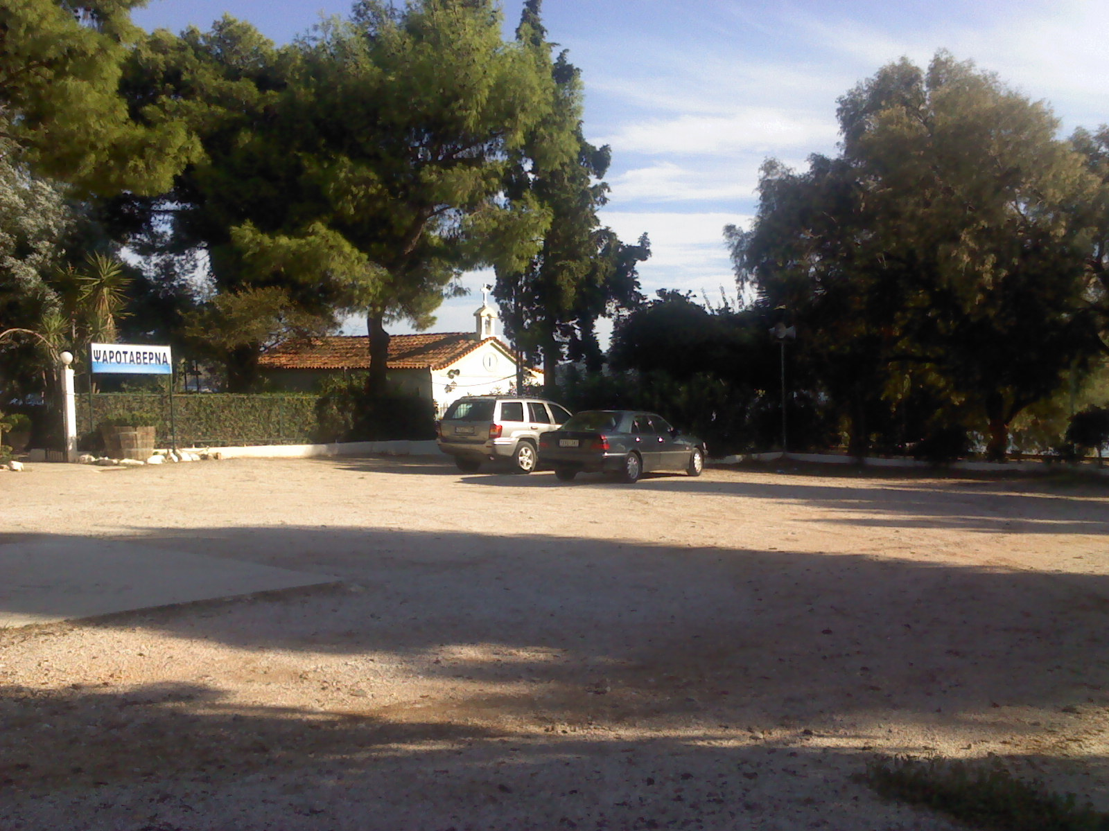 Agios Spiridon Porto Rafti